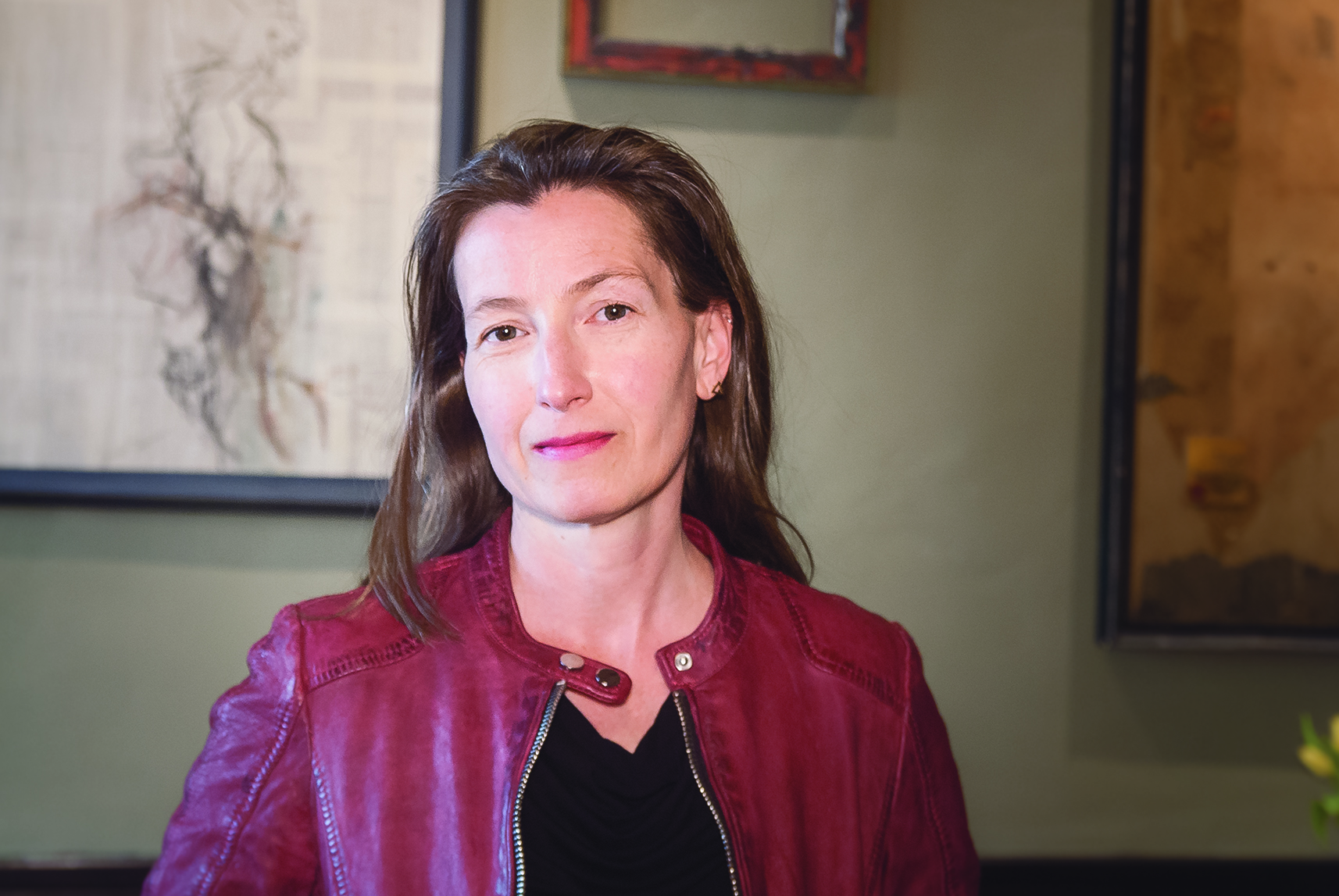 Portrait of the german journalist and writer Sonja M. Schultz, Photo: Maurus Knowles